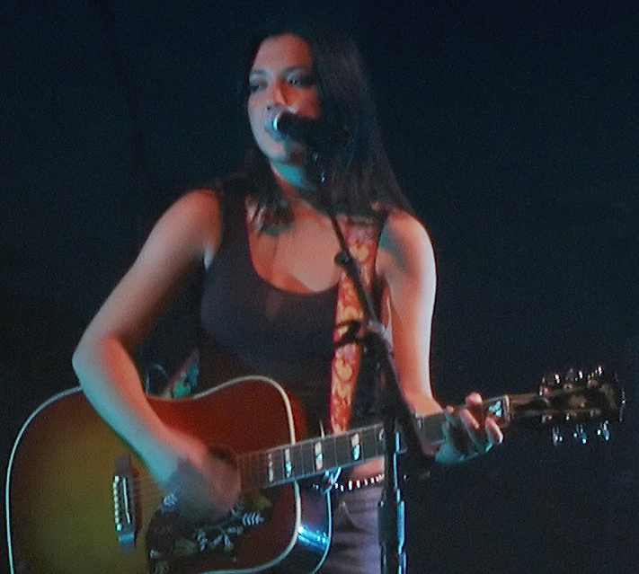 Michelle Branch performing at Kool Haus in Toronto. Cropped, photoshopped. Etc.